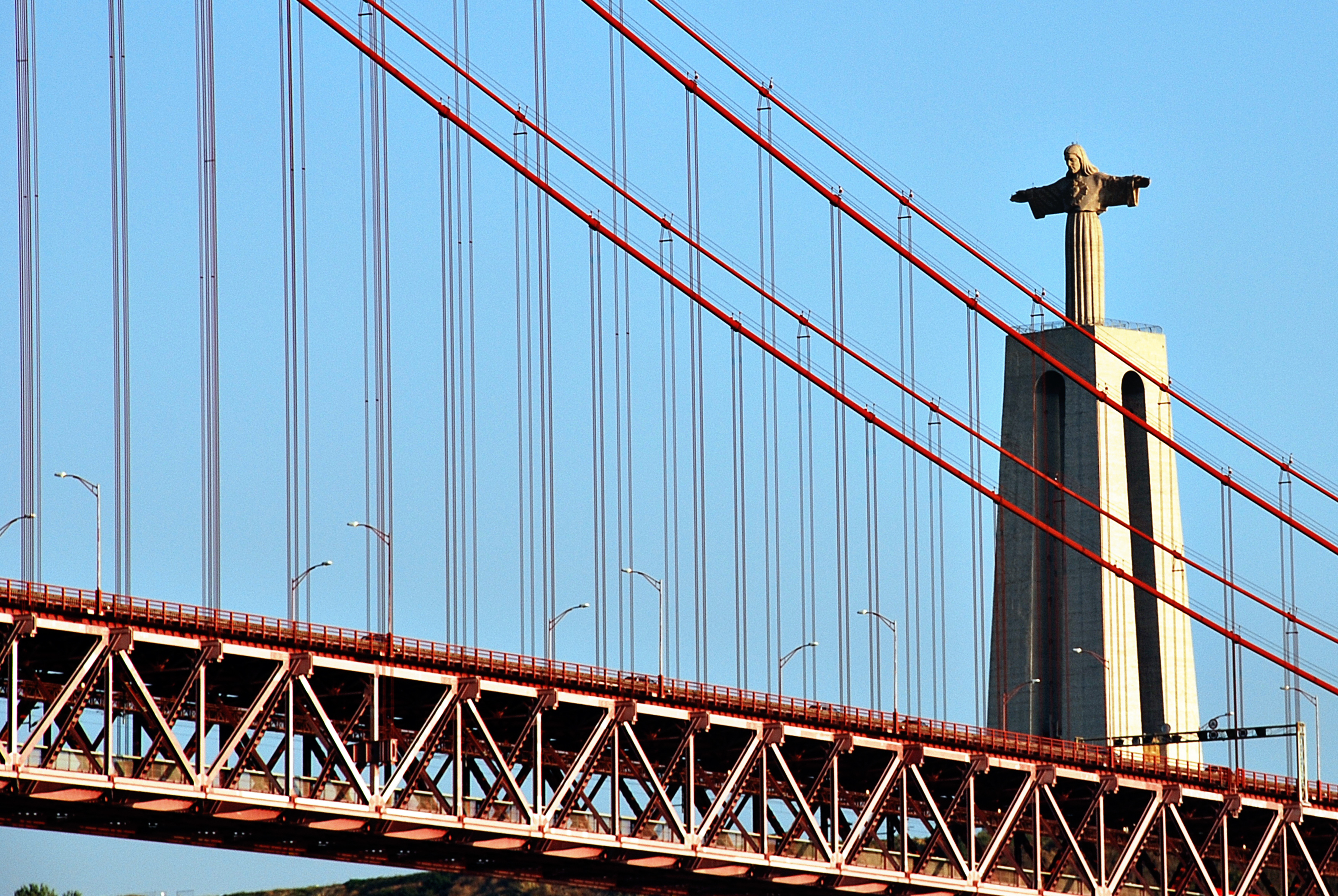 Ponte 25 de Abril (25th of April Bridge), The Cristo-Rei statue (side view). Lisbon, Portugal, Southwestern Europe.